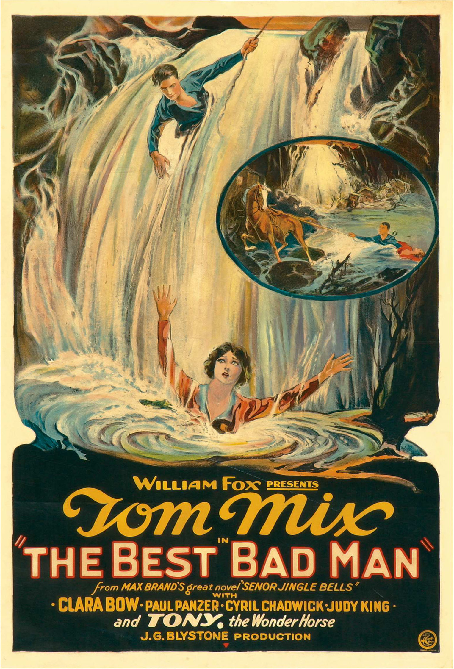 Poster for the 1925 film The Best Bad Man. There are no copyright marks on the poster. At bottom right is Made in USA and the logo of the H. C. Miner Litho Co.-they printed the poster.